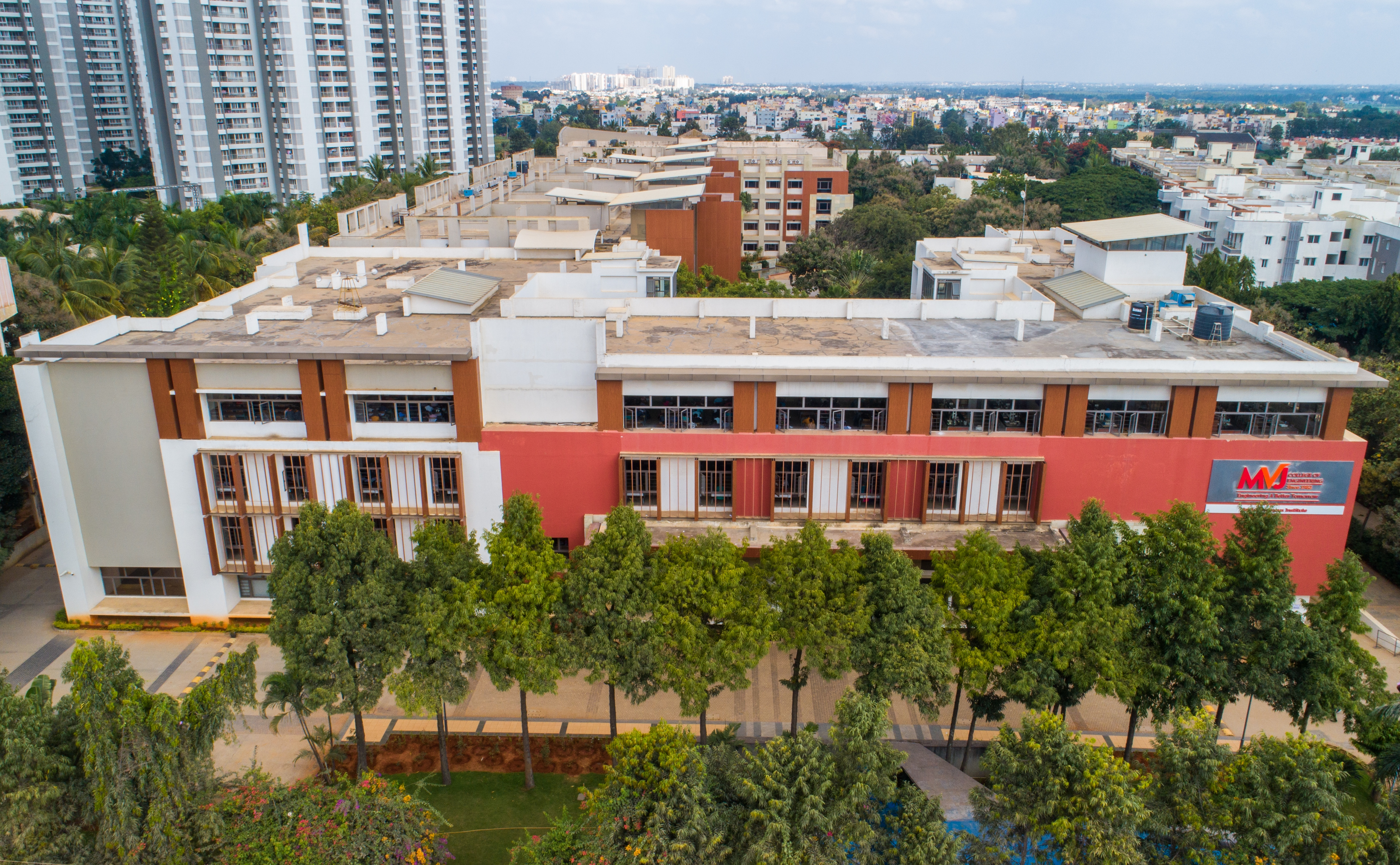 Logo Change in the new Image